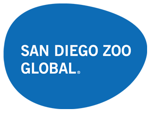 Logo of San Diego Zoo Global, formerly The Zoological Society of San Diego. The new name and logo were adopted in 2010 as part of a rebranding of the organization. SDZG operates the San Diego Zoo, San Diego Zoo Safari Park, San Diego Zoo Institute for Conservation Research, and San Diego Zoo Wildlife Conservancy.